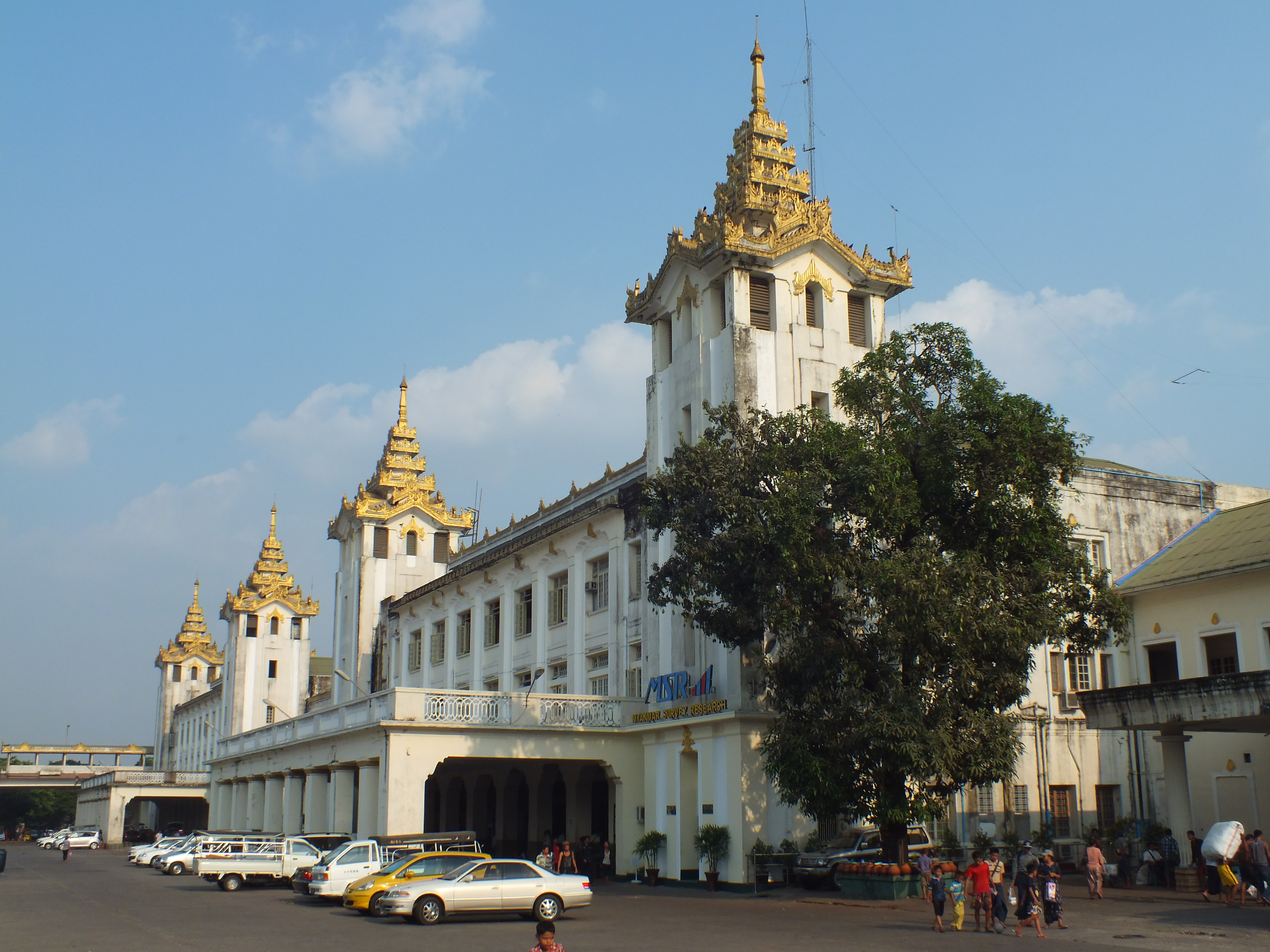 Yangon - Gare Centrale